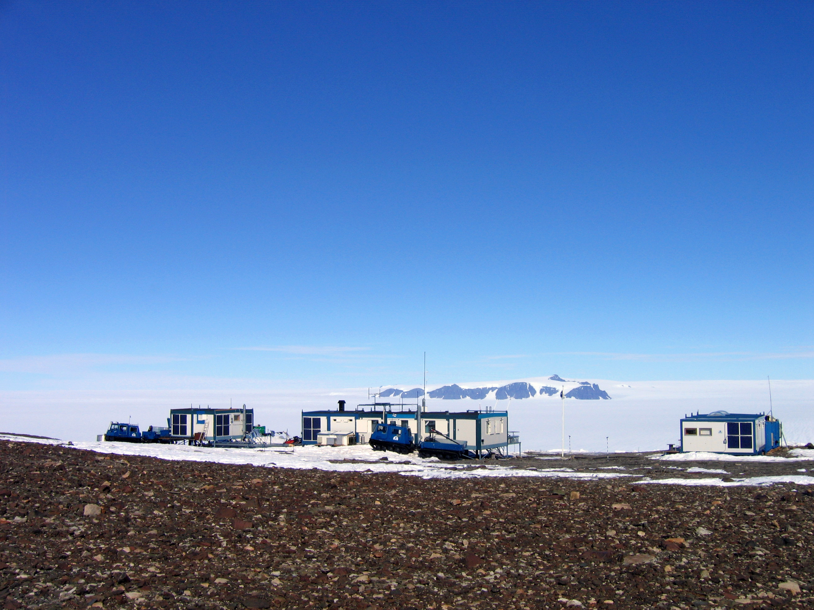 Aboa (from the Latin name of Turku) is a Finnish research station in Antarctica. It was built in 1988. It is located in Queen Maud Land, about 130 kilometers from the coast, on a nunatak called Basen in the Vestfjella Mountains.